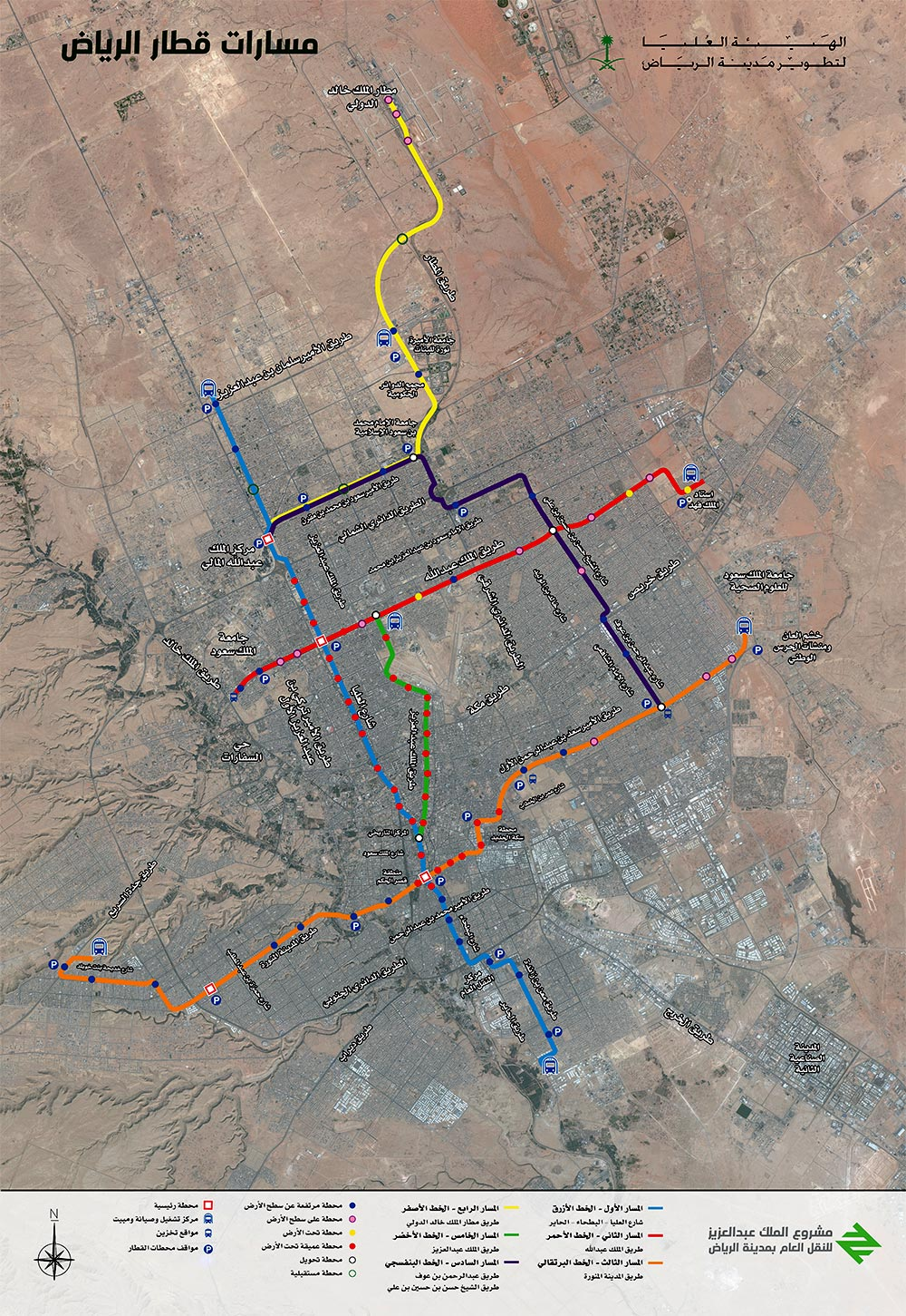 riyadh metro map